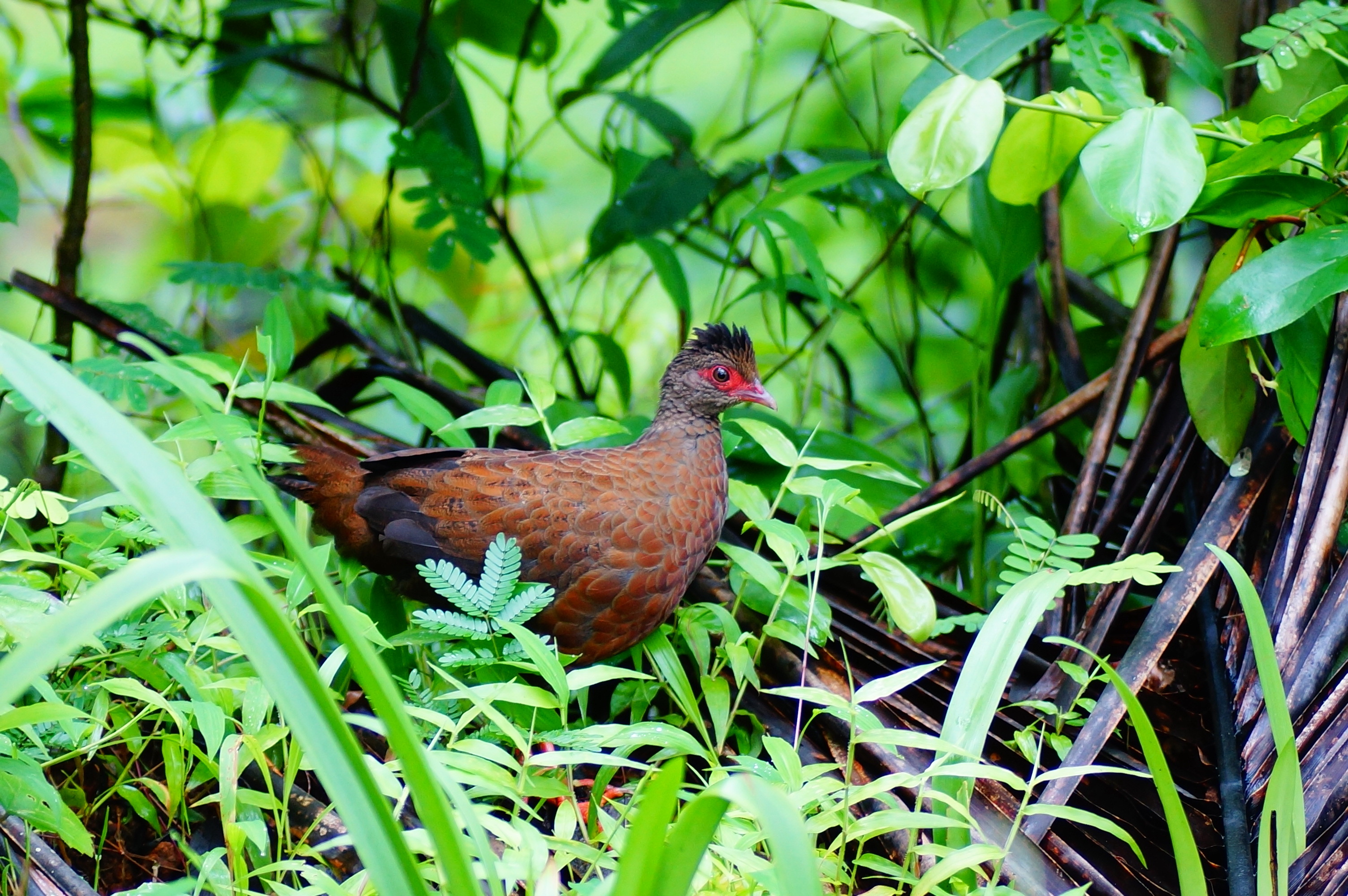 Red Spurfowl Galloperdix spadicea